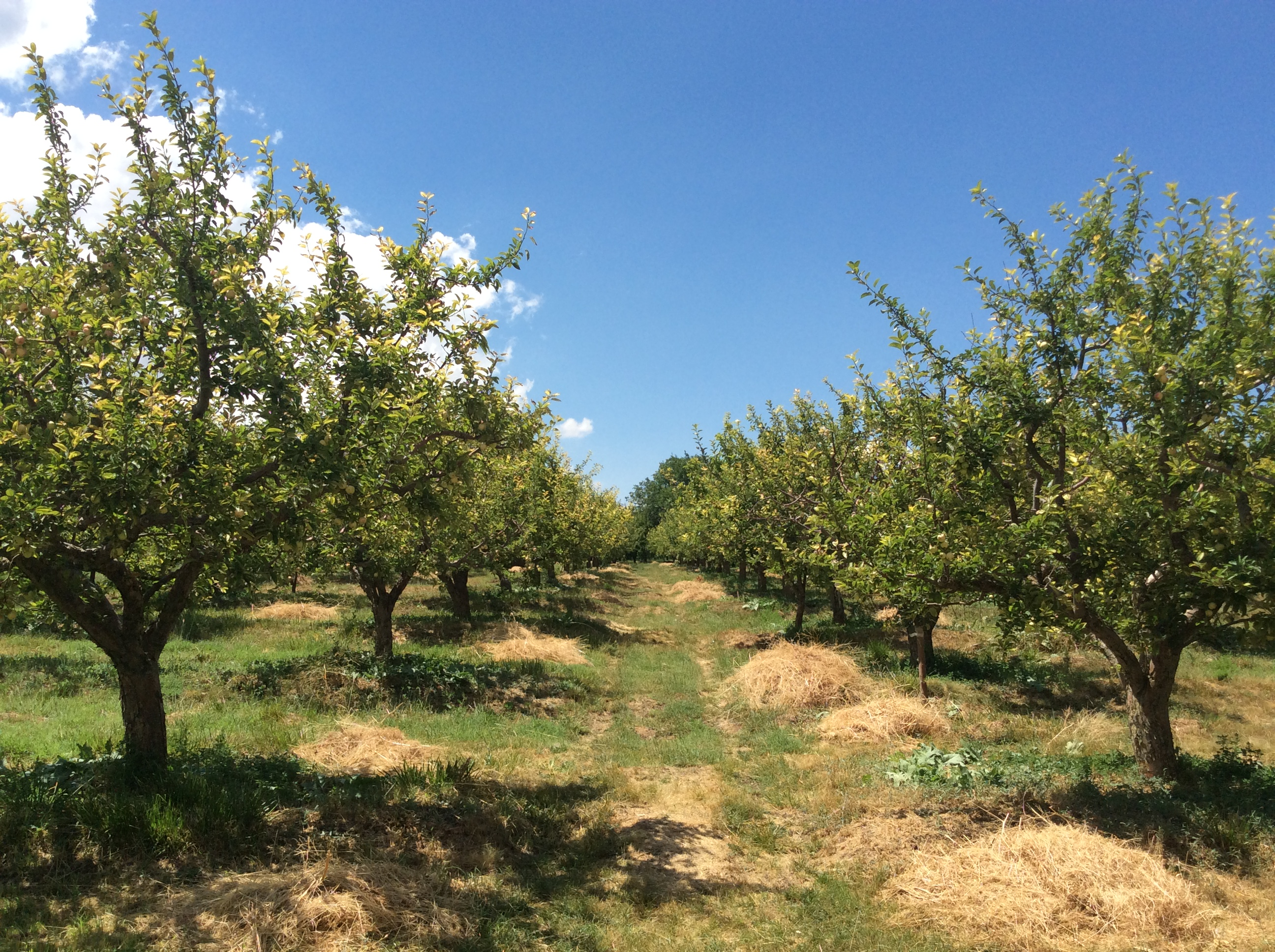 A Niğde Apple (Malus domestica var. nigde) orchard in Bademdere in Çamardı - Niğde, Turkey.